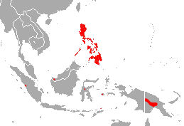 Arcuate Horseshoe Bat (Rhinolophus arcuatus) range